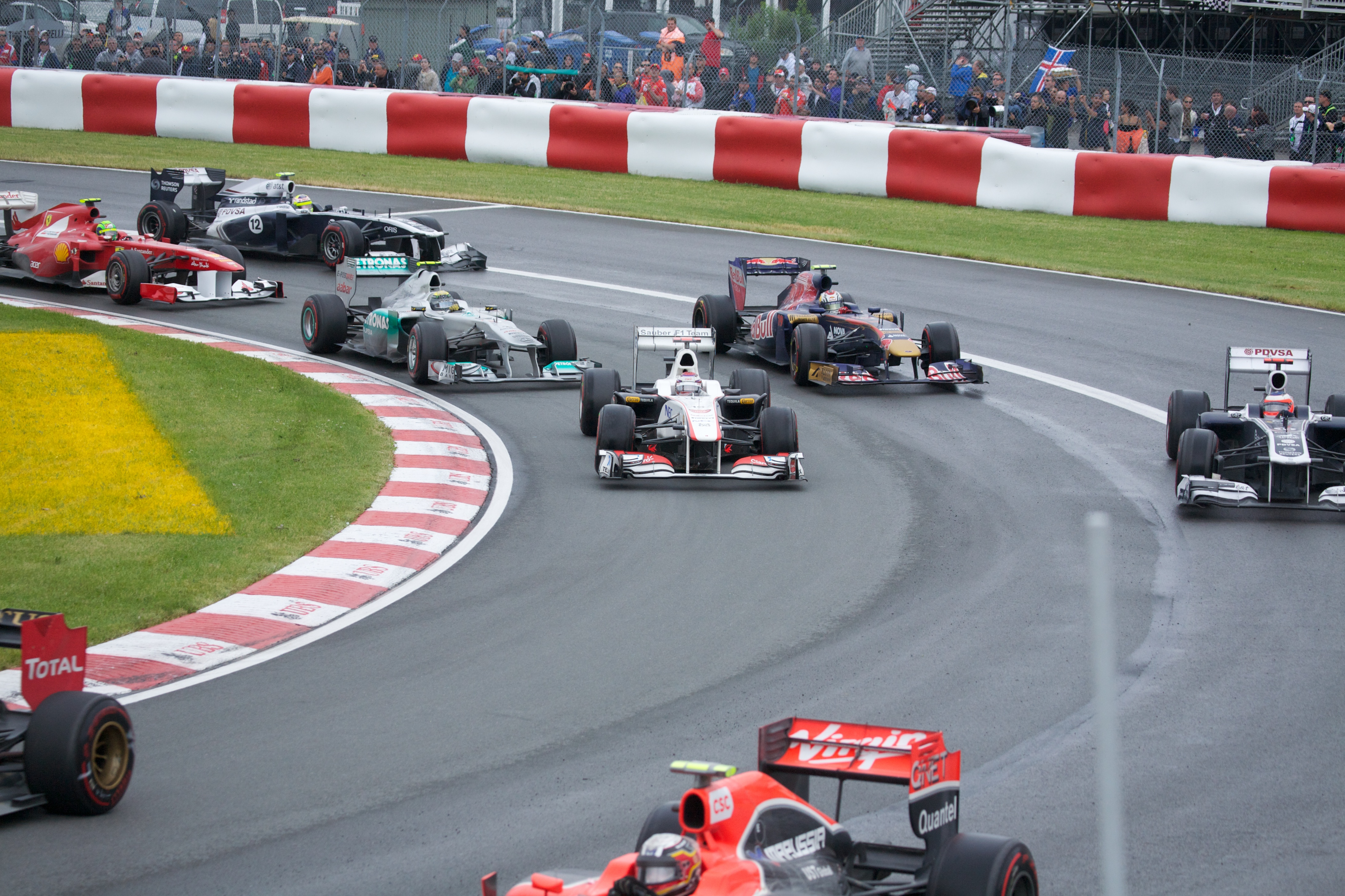 2011 Canadian Grand Prix